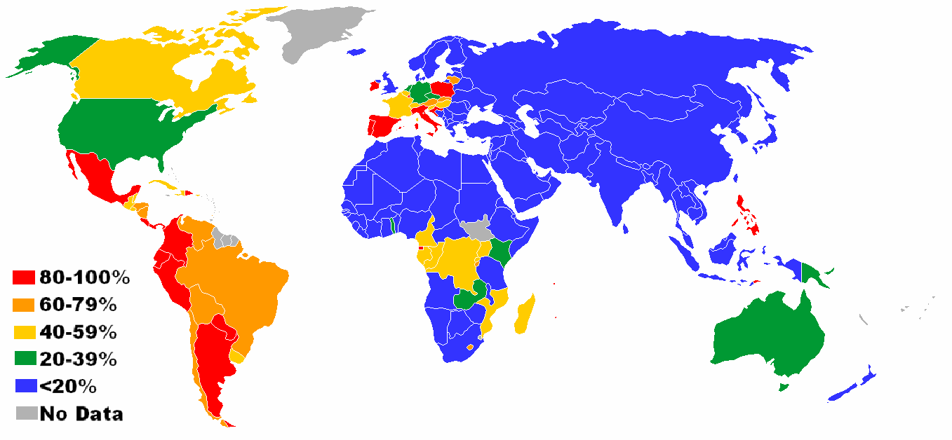 Catholic Population percentages by country